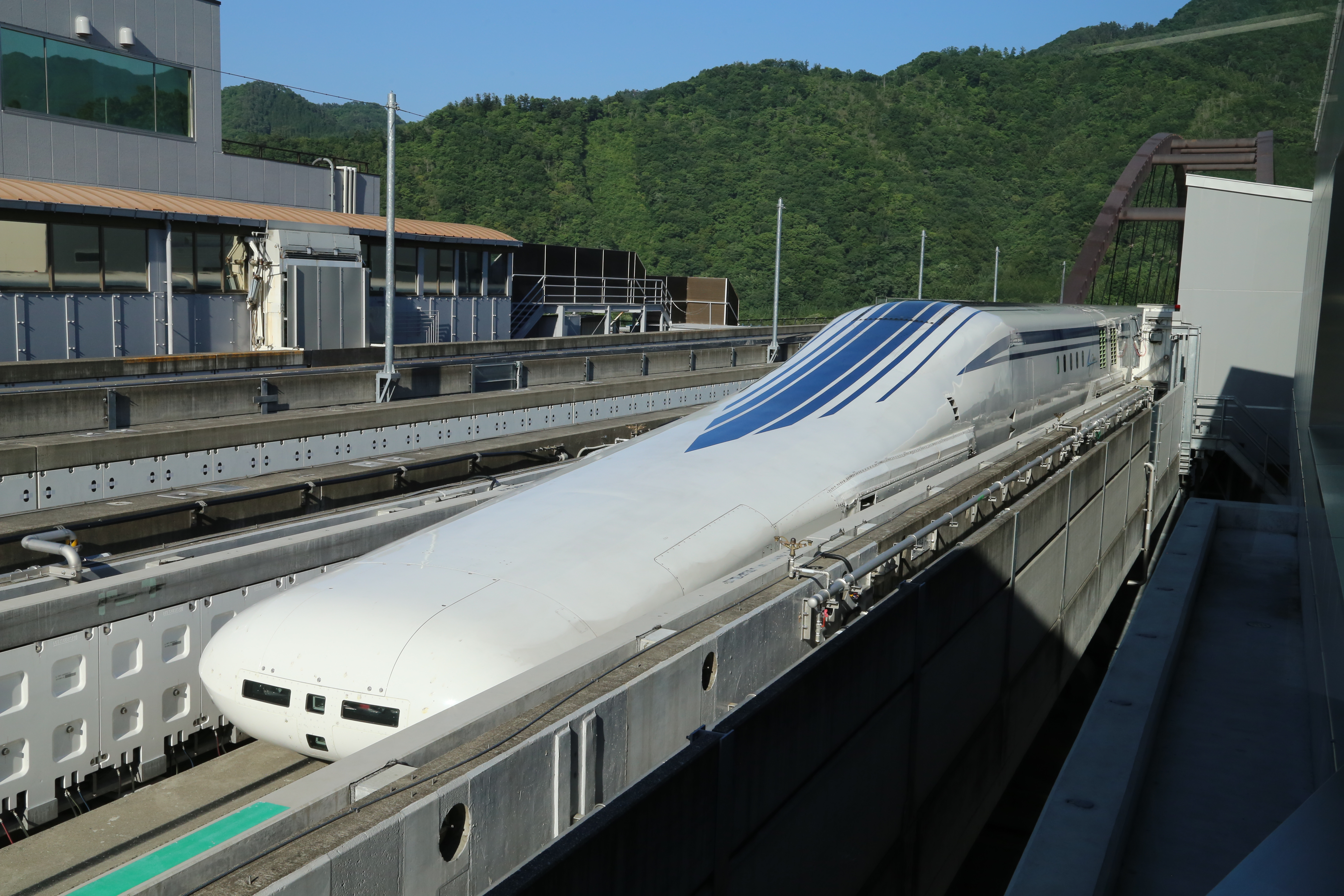 An L0 series maglev train on the Chuo Shinkansen test track in Yamanashi Prefecture, Japan